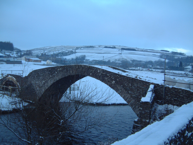 Packhorse bridge over Gala Water at Stow of Wedale in the Scottish Borders region